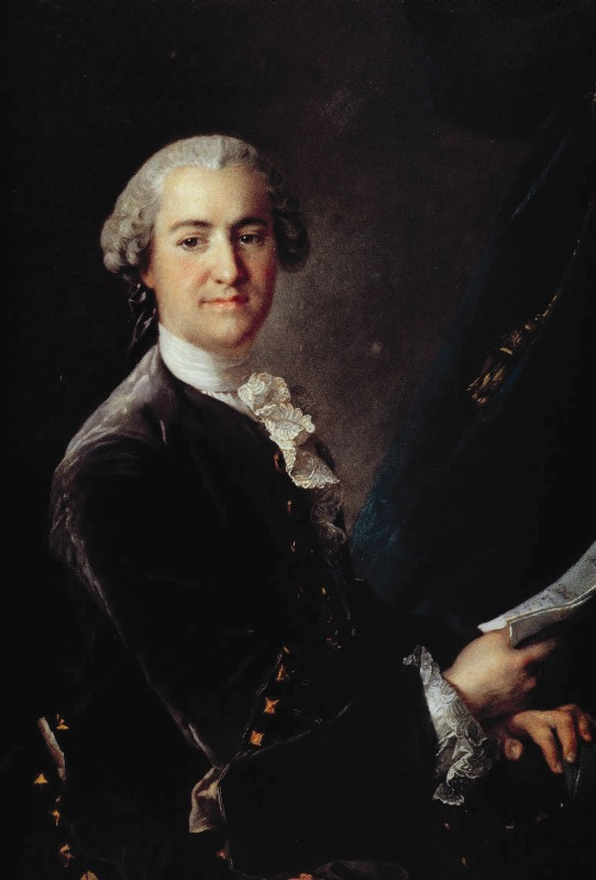 De Dietrich comapny founder